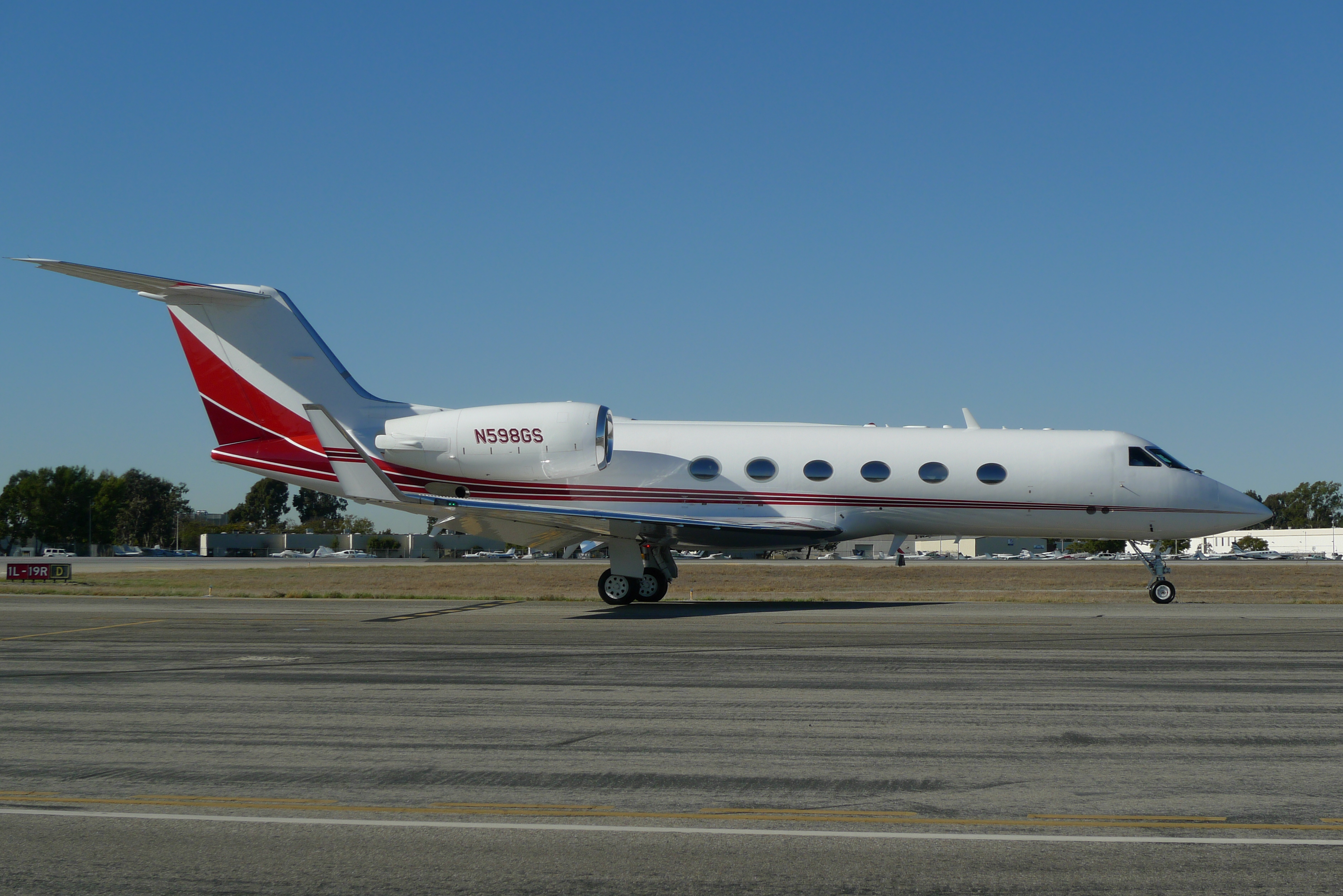 GULFSTREAM G-IV N598GS photo D Ramey Logan